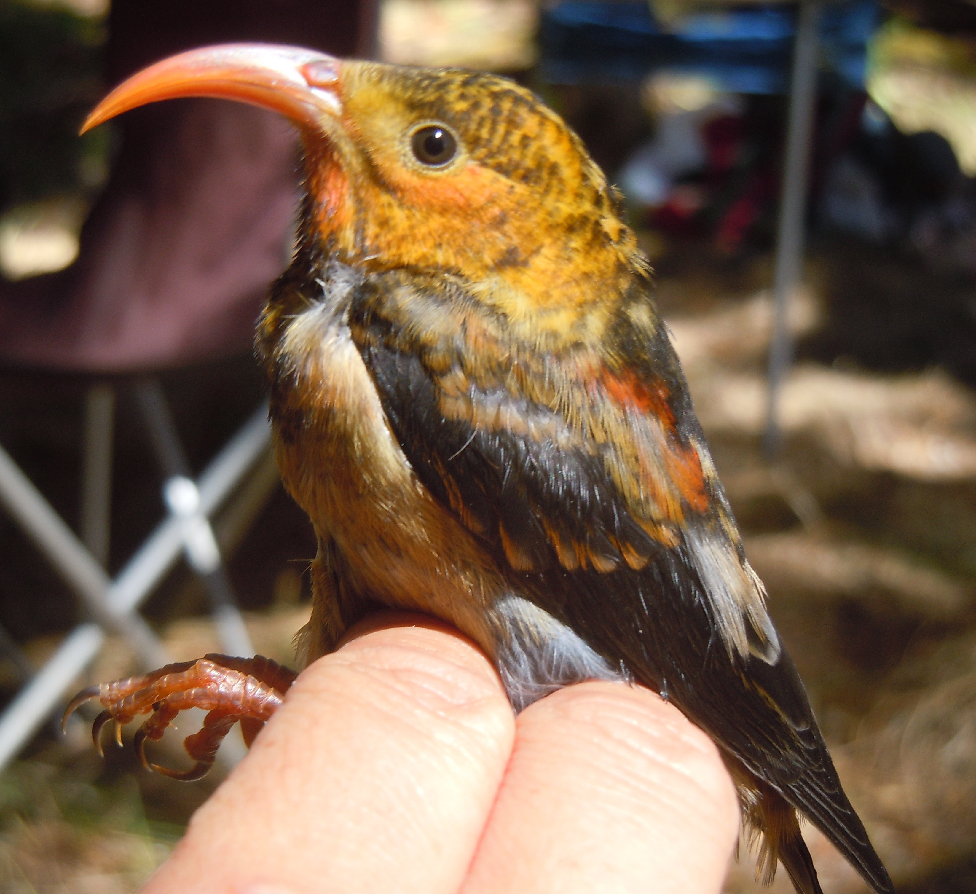 The endangered i'iwi is one of the Hawaiian honeycreeper species. They evolved in the forests of Hawai'i and are found nowhere else in the world. This bird was banded and released back to the forest. Hakalau Forest National Wildlife Refuge, HI March 2012 Photo: Noah Kahn/USFWS